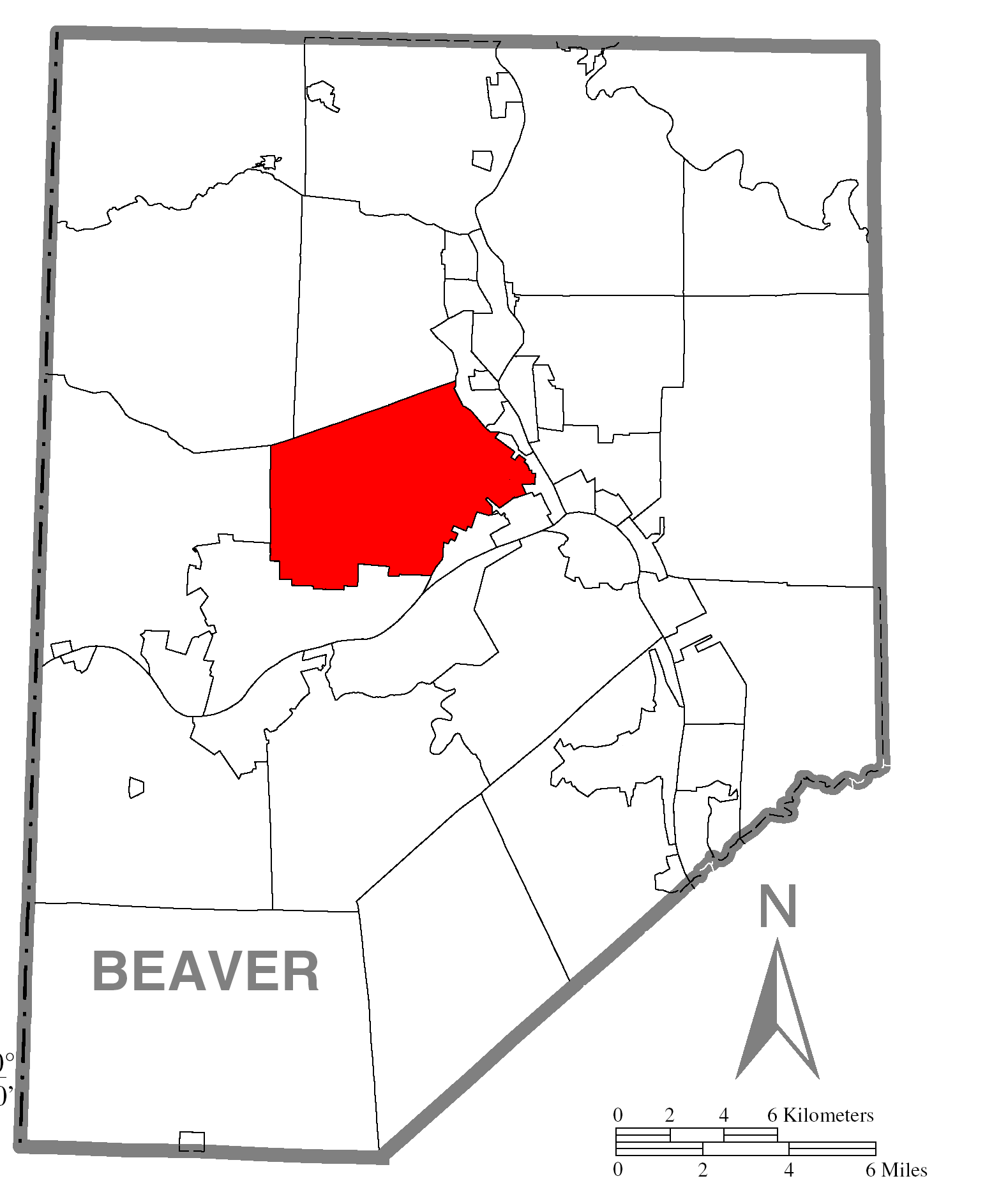 A map of Beaver County showing Brighton Township, Pennsylvania (alternate) highlighted on the map.